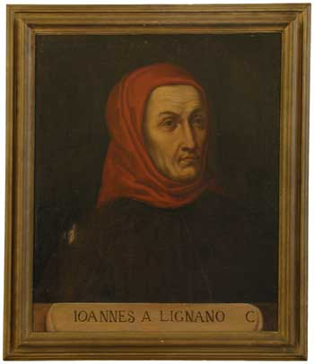 Giovanni da Legnano (born around 1320; died February 16, 1383), Italian jurist and supporter of Pope Urban VI during the Western Schism